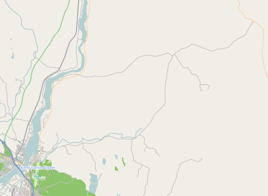 Map of Keminmaa